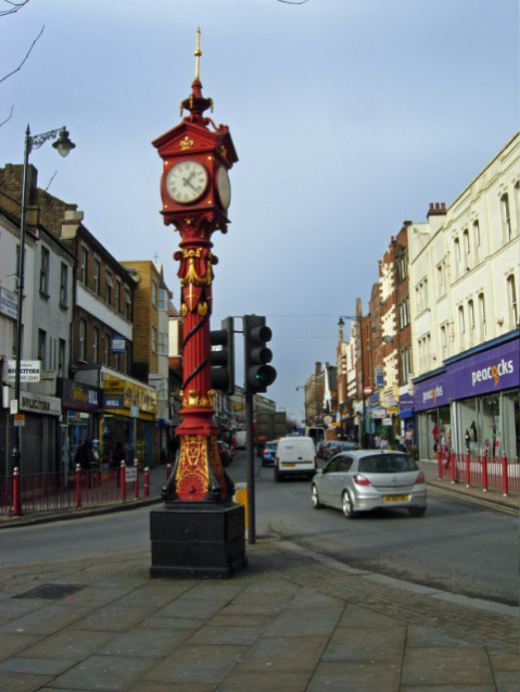 Harlesden High Street Looking along the western end of the High Street past the jubilee clock of 1888.